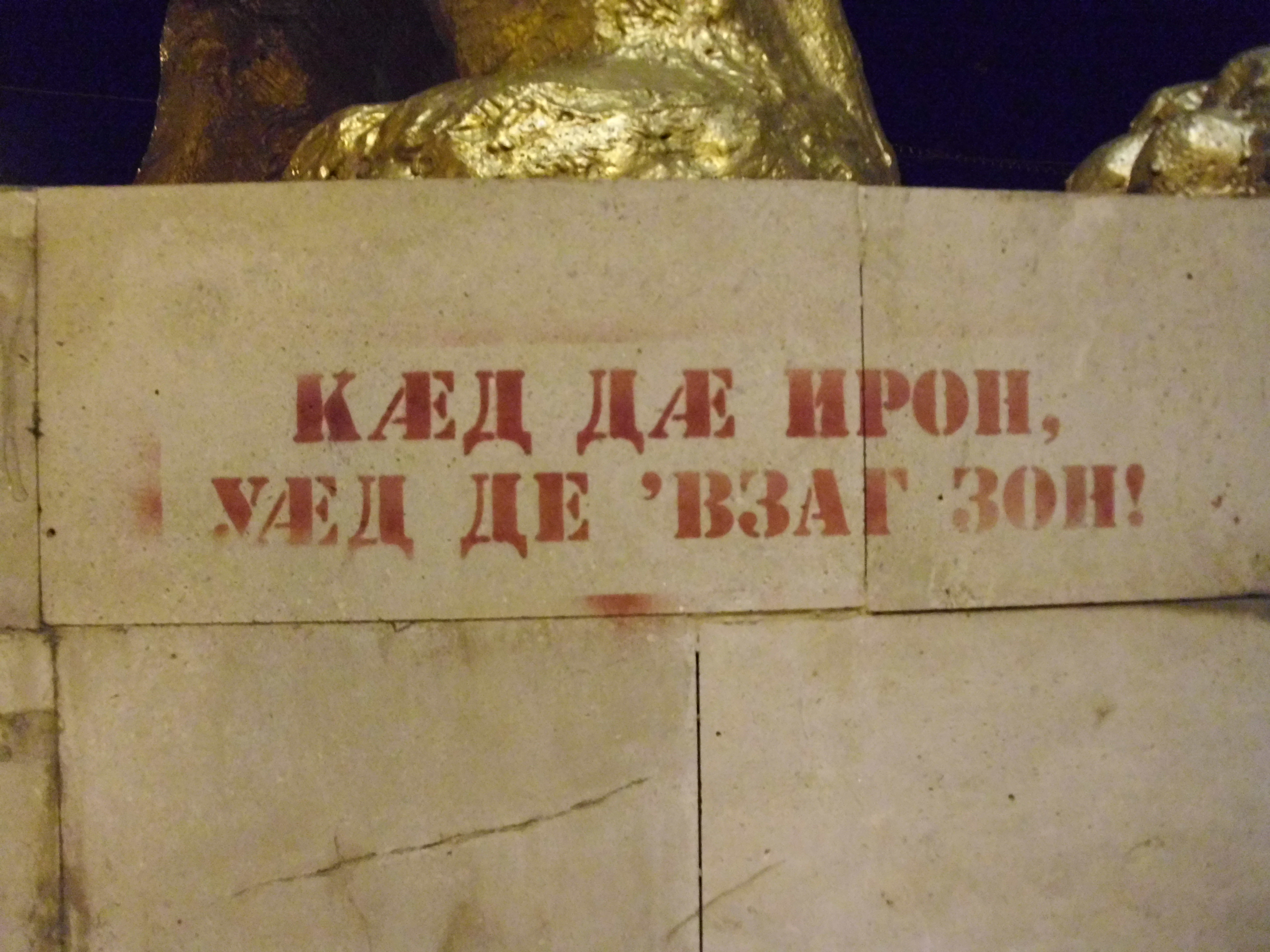 Ossetic graffiti in Vladikavkaz